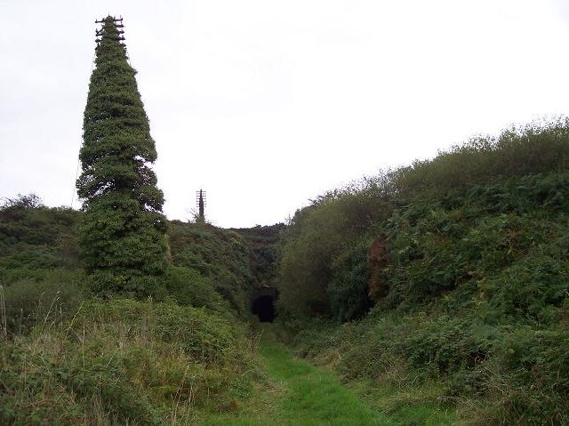 Approach cutting to Gogginshill Tunnel, Co.Cork. Nine miles from the city of Cork the Cork Bandon & South Coast Railway passed through the 906 yards-long Gogginshill tunnel. This is the approach cutting to the north portal. In most countries they make telegraph poles out of trees; in Ireland it would appear the reverse applies!